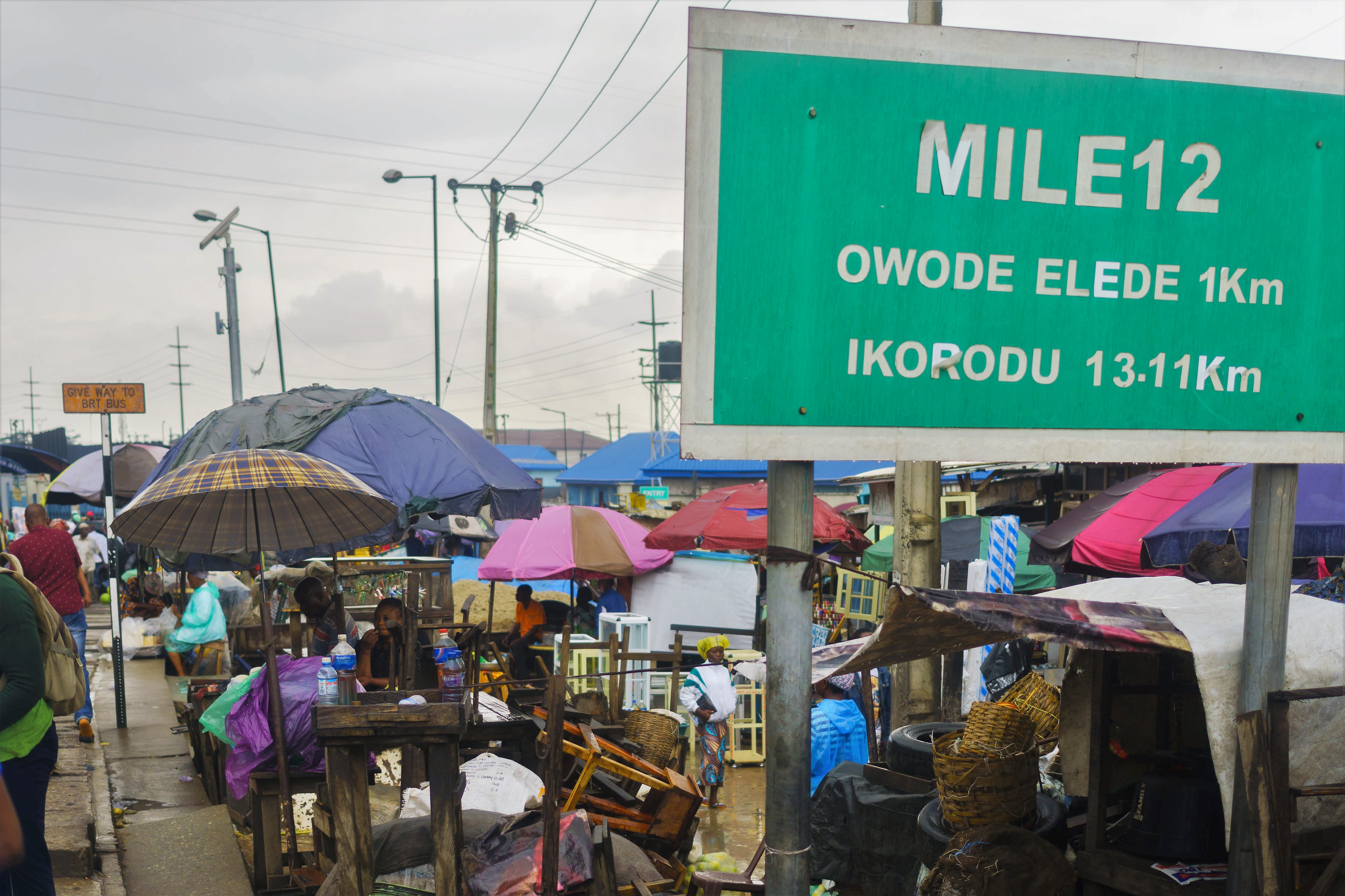 Notable Landmarks and bus station in Lagos state